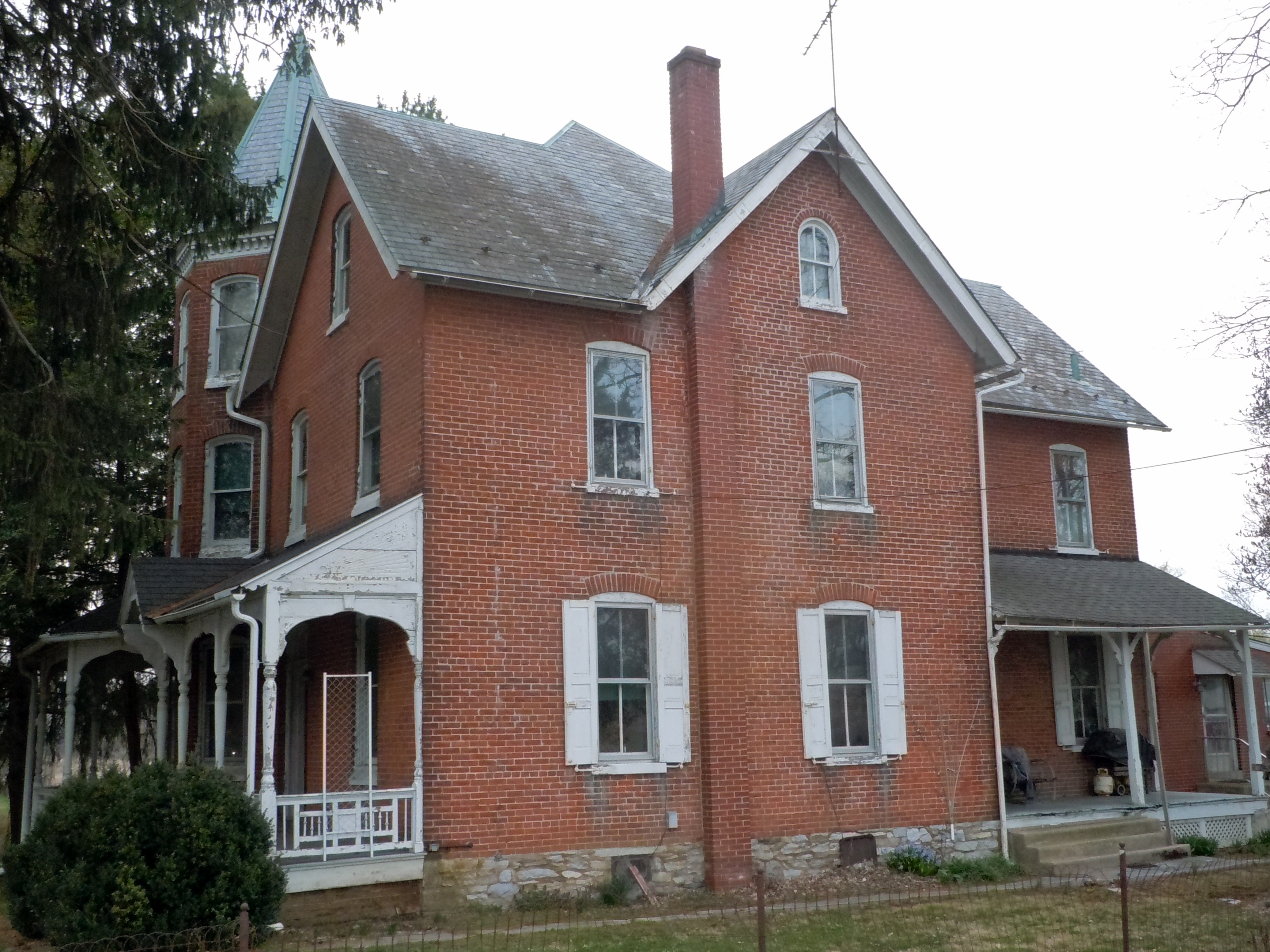 Knorr-Bare Farm on the NRHP since July 29, 1992. At 4995 Penn Avenue (US 422), Lower Heidelberg Township, Berks County, Pennsylvania